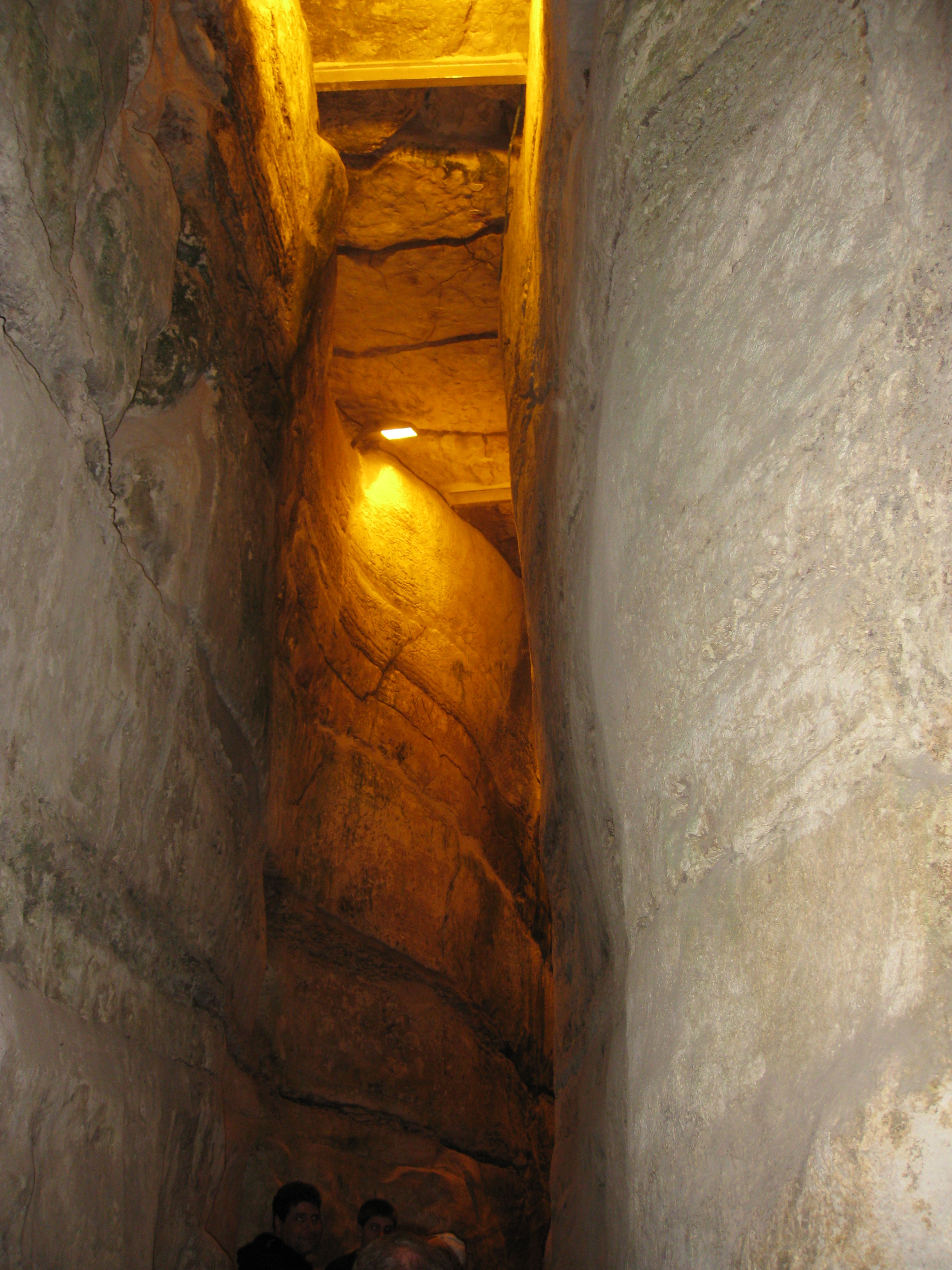 Western Wall Tunnel מנהרות הכותל Hasmonian Viaduct